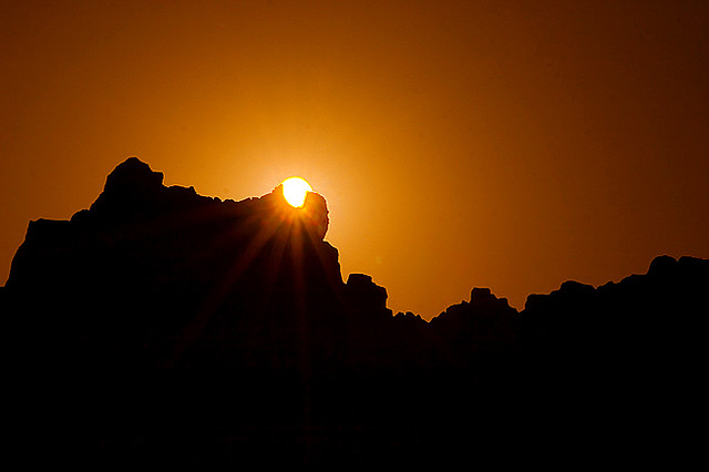 View of the setting sun passing through the notch of the prehistoric Observatory Kokino, Republic of Macedonia